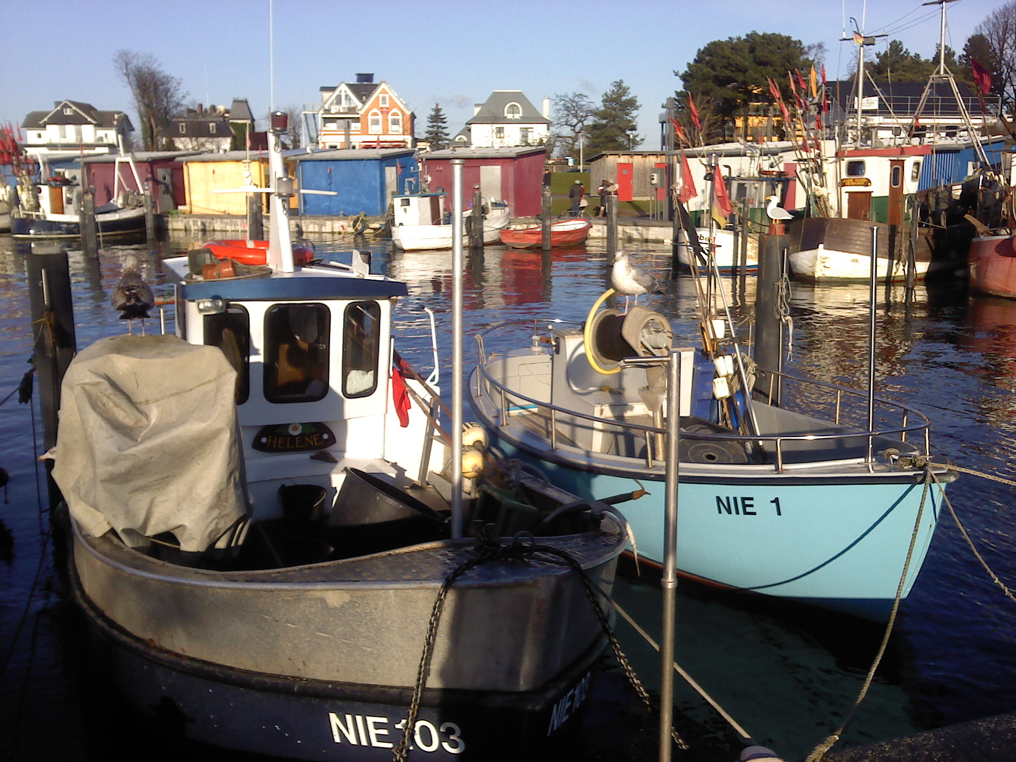 Fishing Port of Niendorf, Ostholstein